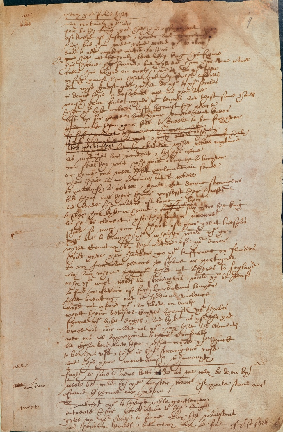 Facsimile of a page of writing by "Hand D" from the Elizabethan play Sir Thomas More, believed by some scholars to be William Shakespeare's handwriting.